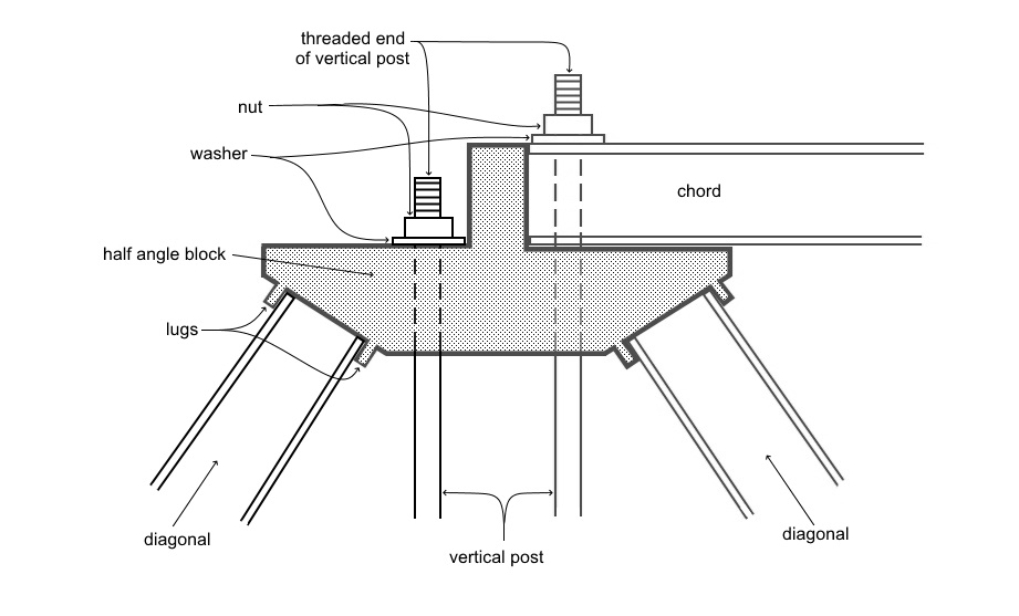 An half angle block design for a Howe truss bridge. Half angle blocks can be used at the ends of a Howe truss bridge. The angle block is made of solid cast iron. One or more holes are cast through the block to provide access for the vertical posts. The chord also has a hole to accept the vertical post. The end portion of the vertical post is threaded so that a nut and washer can be screwed to the post to hold it in place. Lugs (flanges) accept the diagonal braces and diagonal counter-braces. The screws on the vertical posts are then tightened, putting the diagonals and diagonal counter-braces into compression and holding them in place against the lugs and angle block.